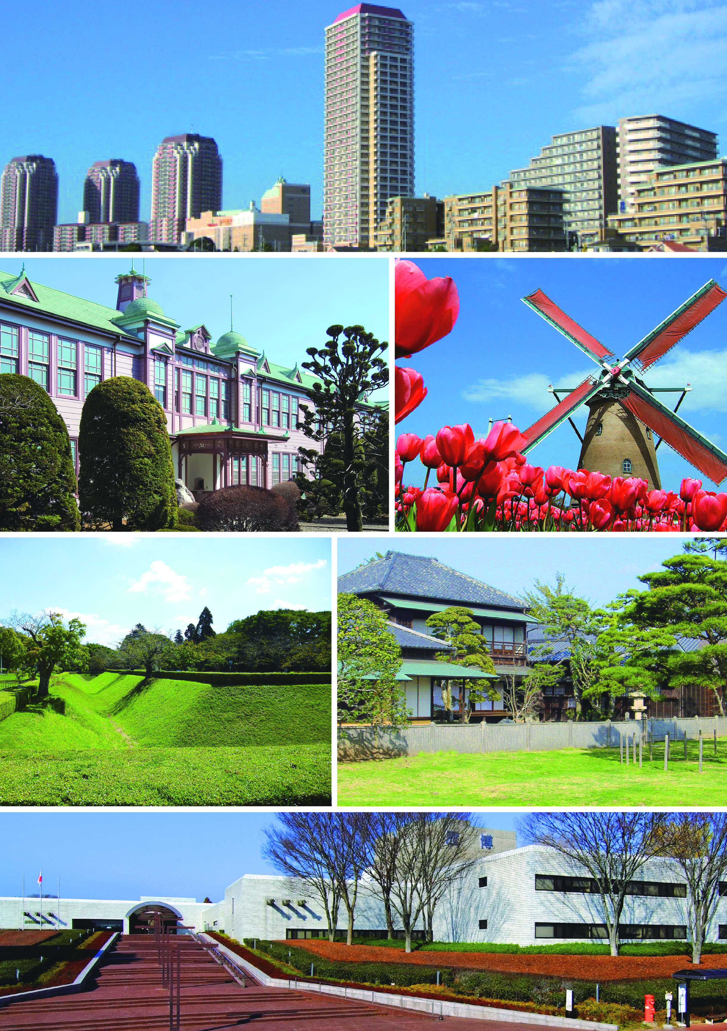 Sakura montage.jpg